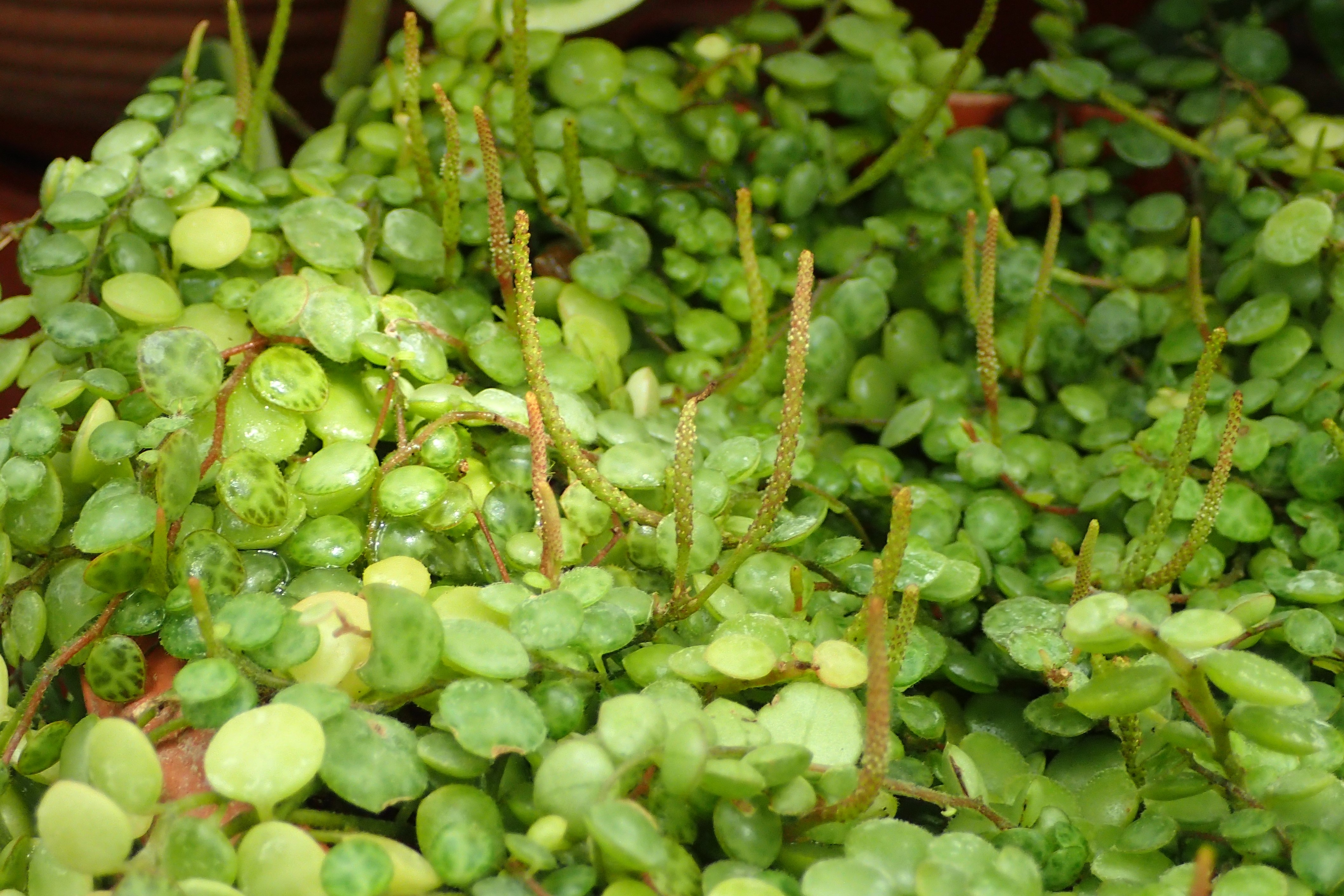 Peperomia prostrata in the UMCS Botanical Garden in Lublin